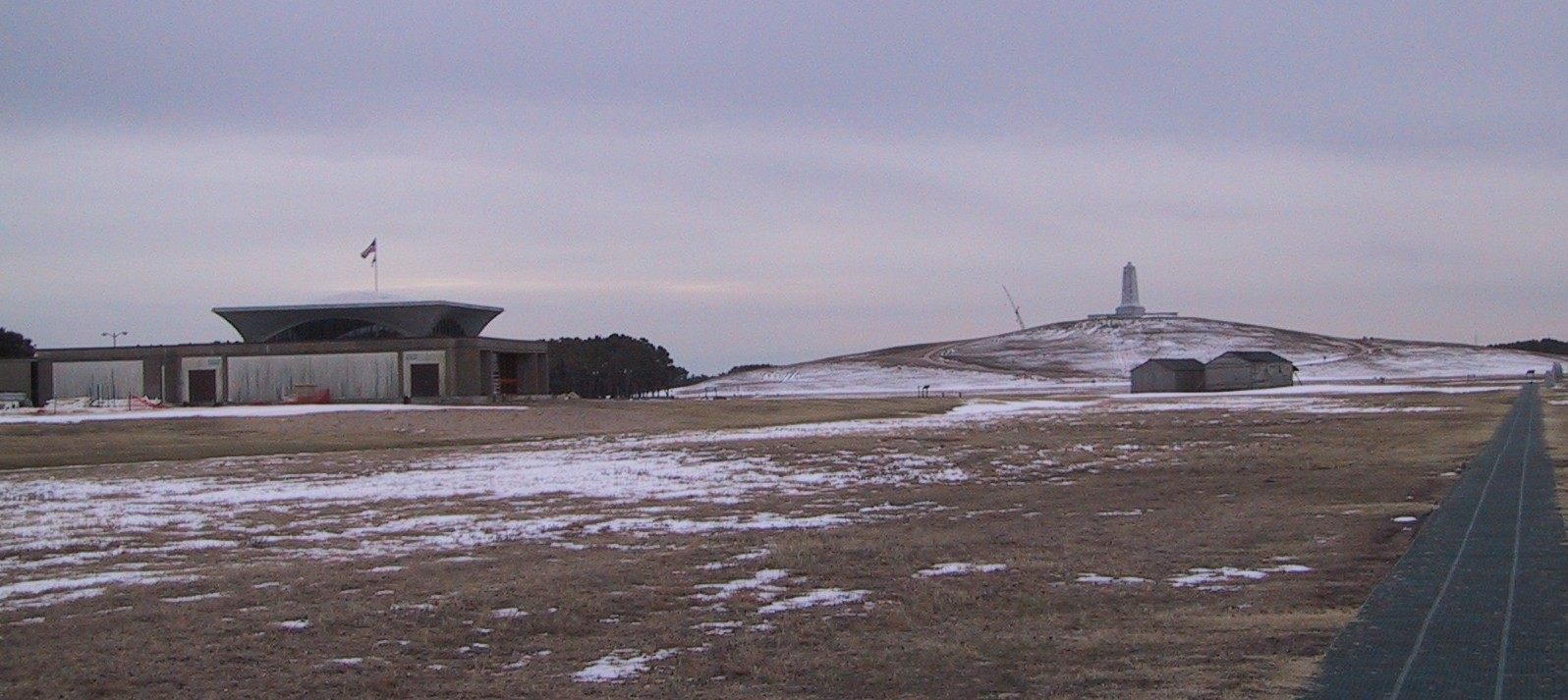 Snowy scenery of Wright Brothers National Memorial. Kill Devil Hills, North Carolina, USA.